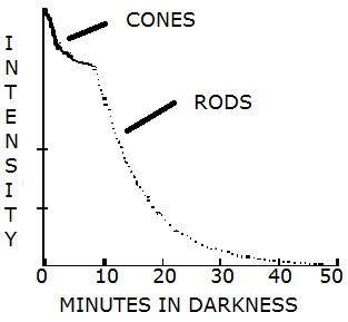 Adaptation of the human eye in dakness